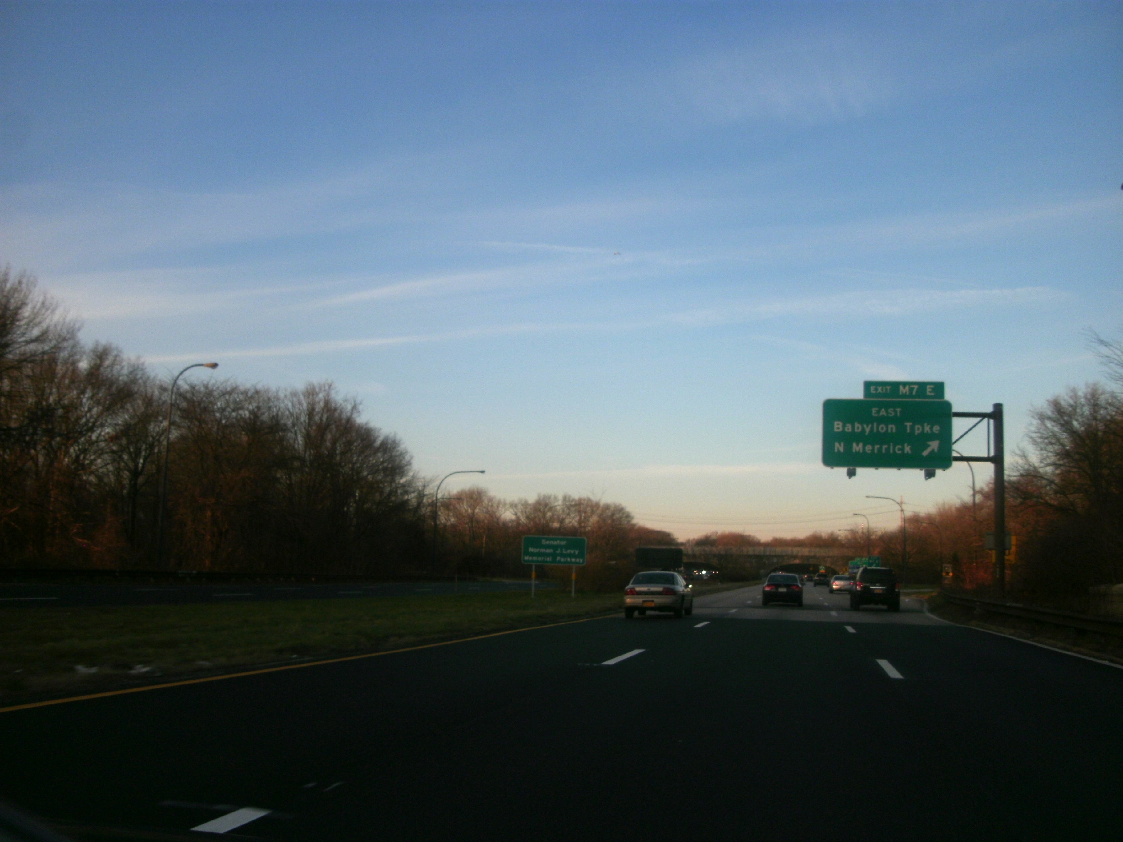 The Meadowbrook State Parkway approaching exit M7 in Nassau County, New York